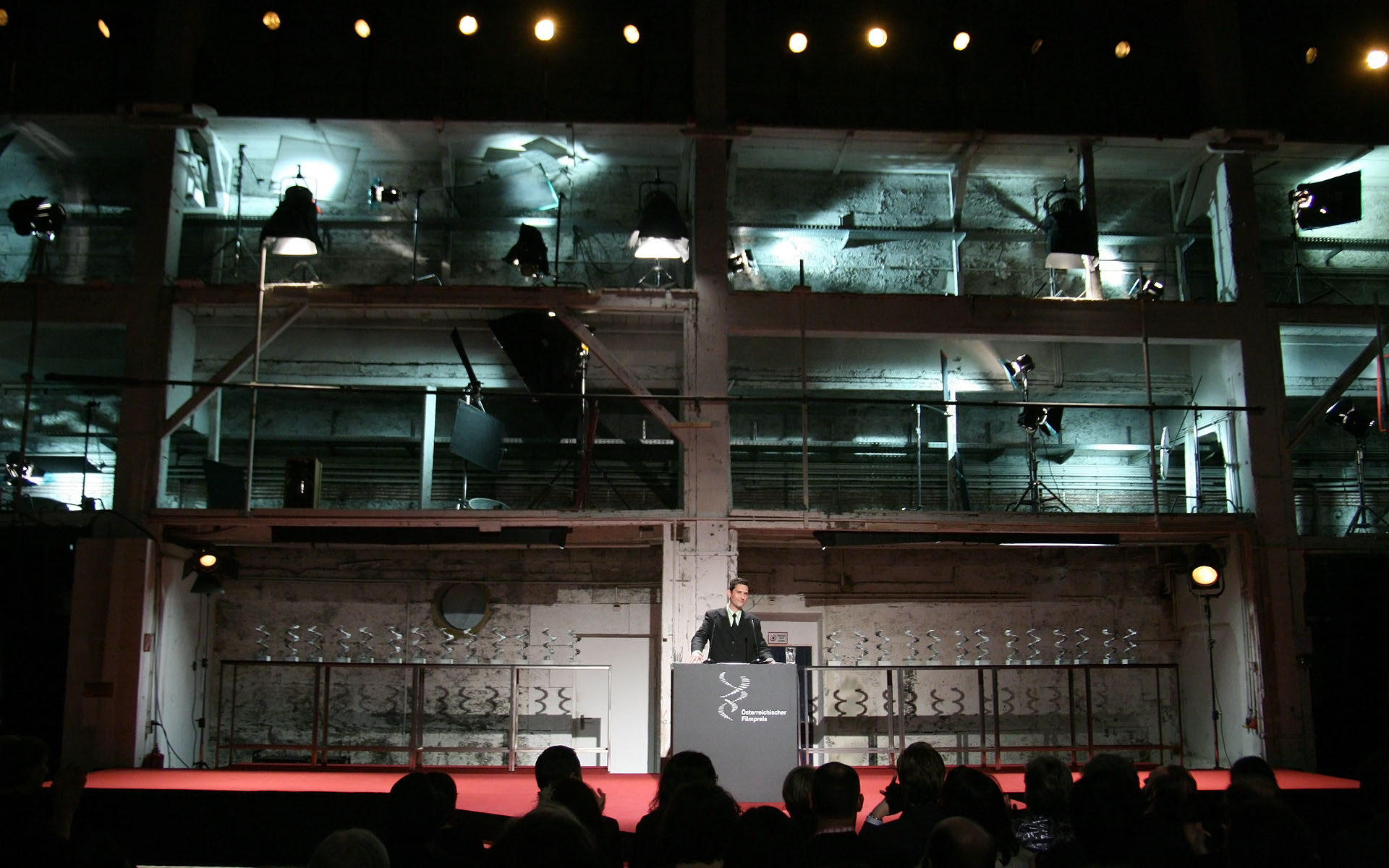 Rupert Henning, presenter of the Austrian Film Awards 2012 (Vienna).